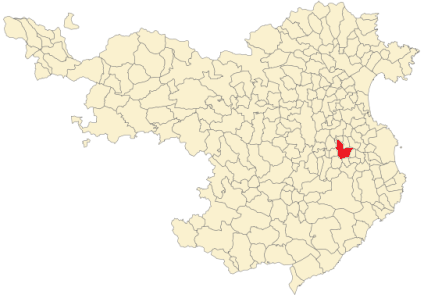 Foixà